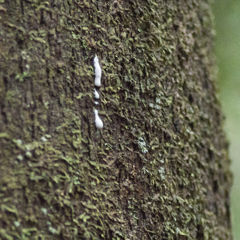 Leite de amapá - small gash in Hancornia amapa tree releases white medicinal sap